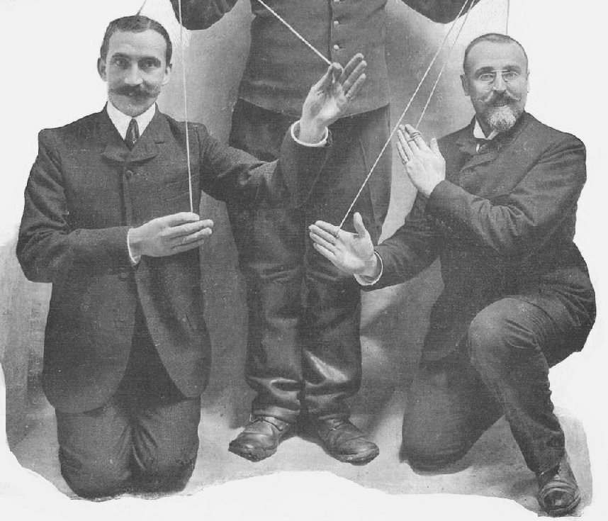 Cropped/edited version of PD image from French Wiki Commons